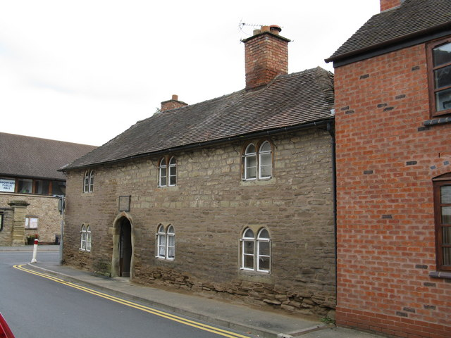 Bromyard almshouses These former almshouses are situated right in the centre of town, at the corner of Old Road and Rowberry Street. See another photo for a close-up of the plaque and its information.